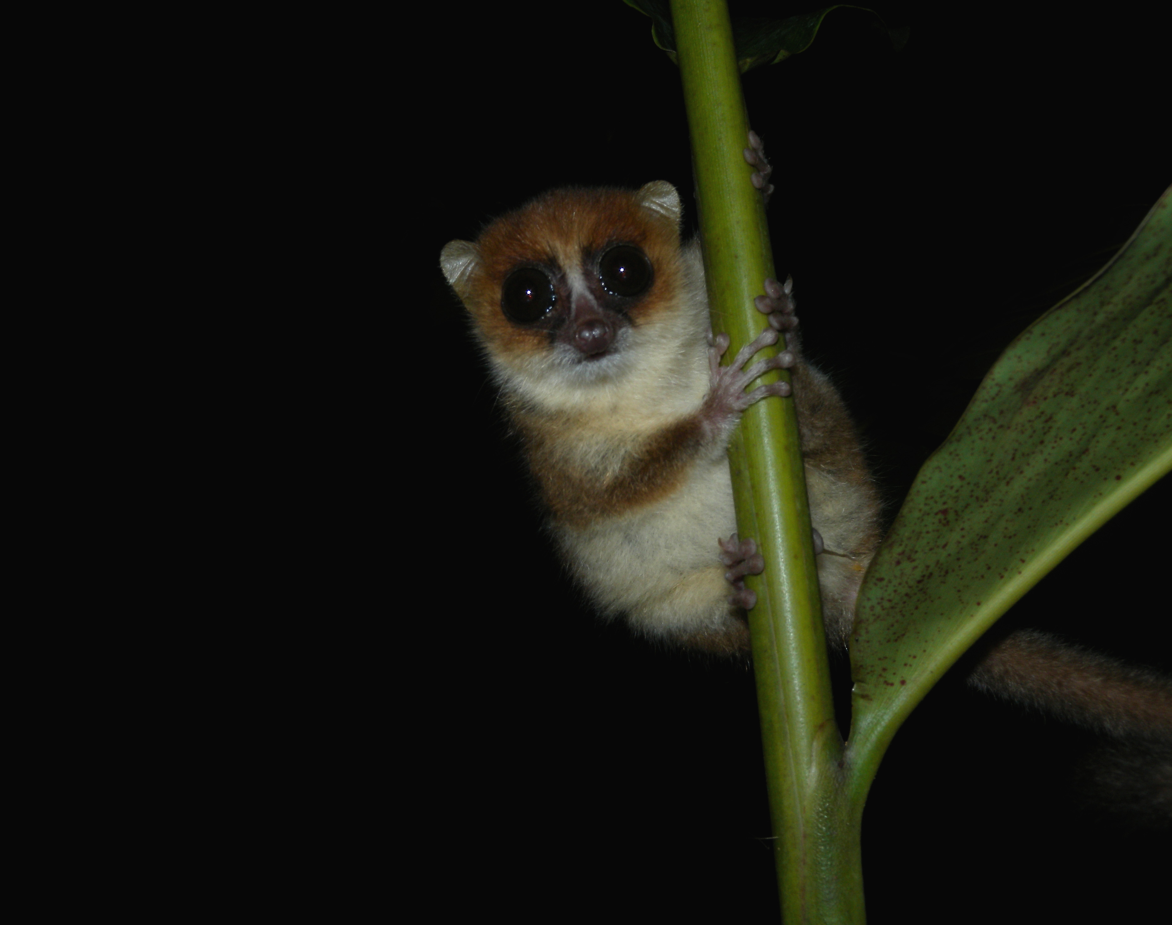 Brown Mouse Lemur, Nosy Mangabe, Madagascar.jpg